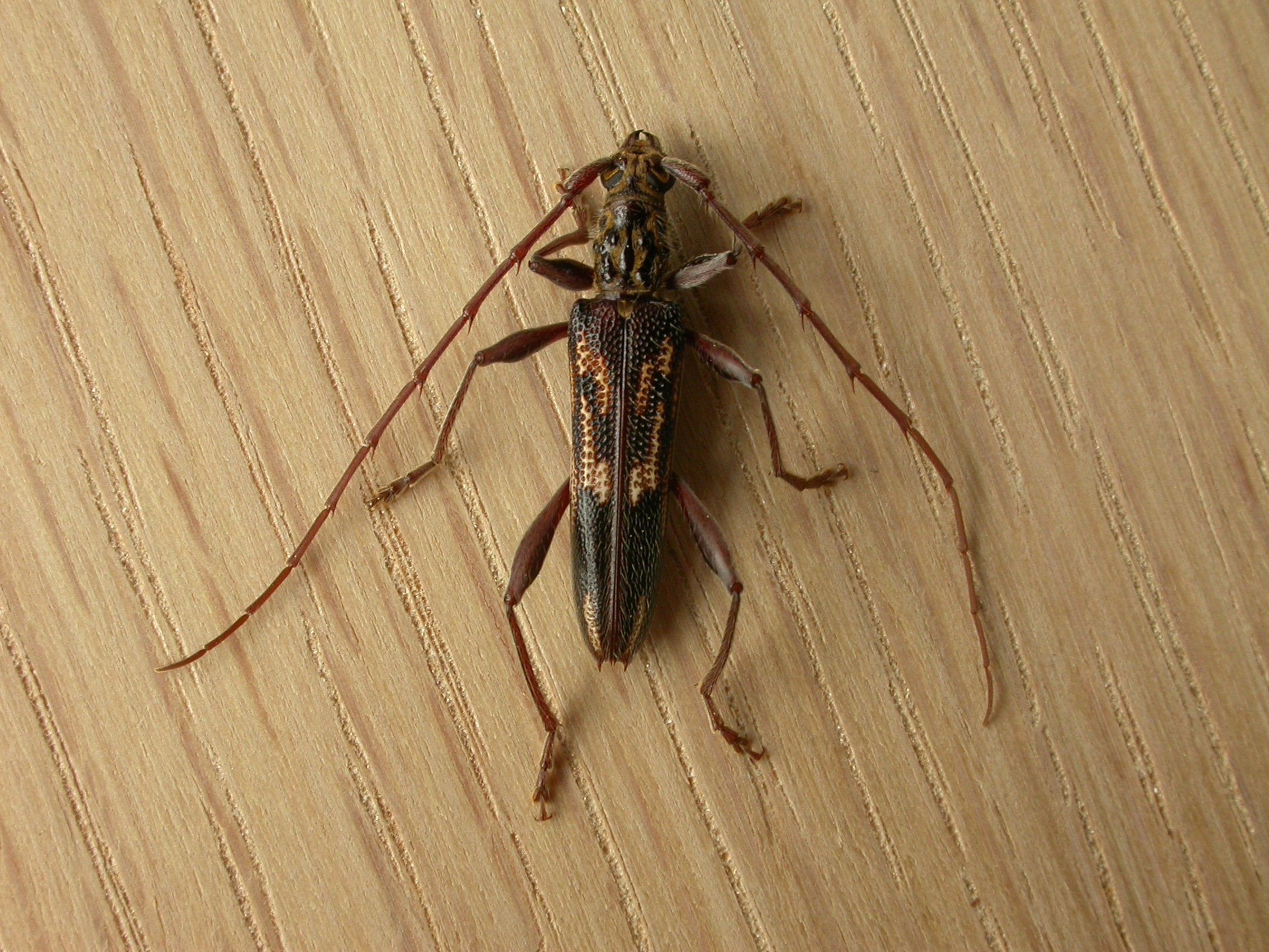 Coptocercus rubripes, to MV light, Aranda, ACT, 11-12 September 2008